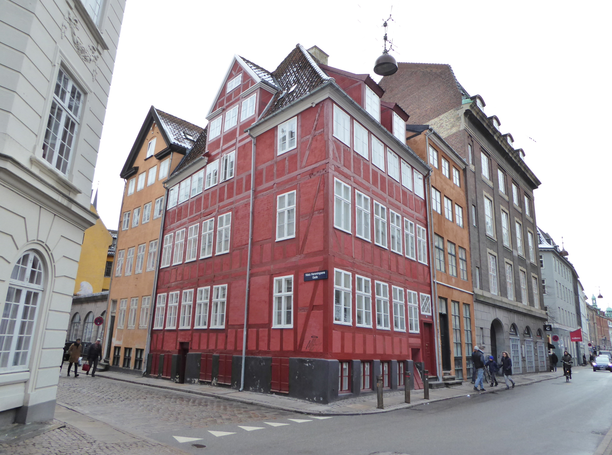 The corner of Niels Hemmingsens Gade and Skindergade in Indre By in Copenhagen.